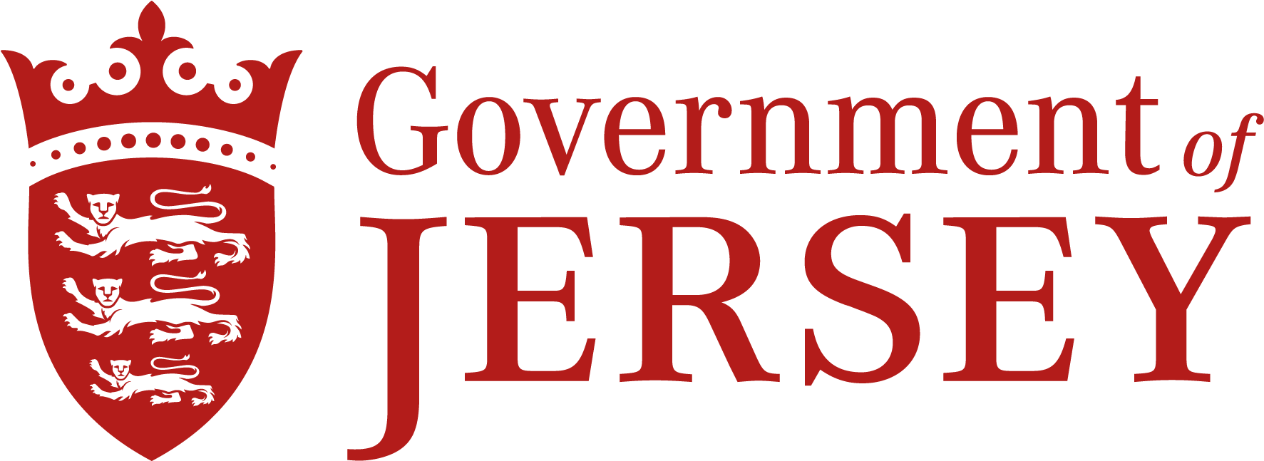 Government of Jersey English identity graphic